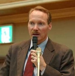 Political-Military Affairs Director Kevin Maher from the U.S. Embassy in Tokyo